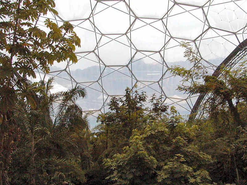 Eden Project: Hexagonal structure of the domes